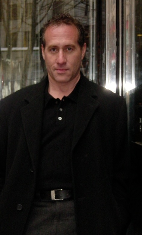 Photo of author Joseph Finder, 2011